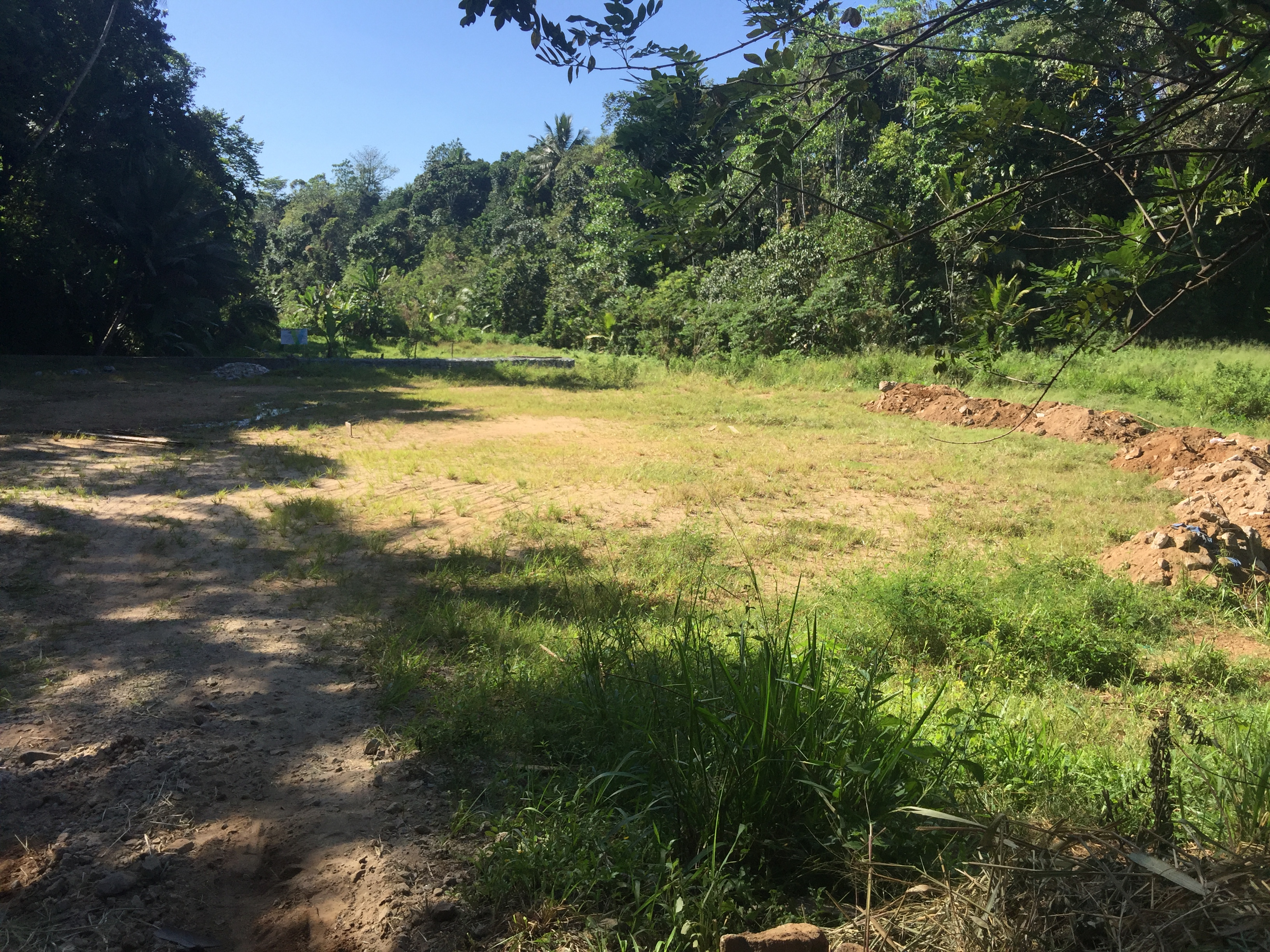 Arafa mmv playground under construction